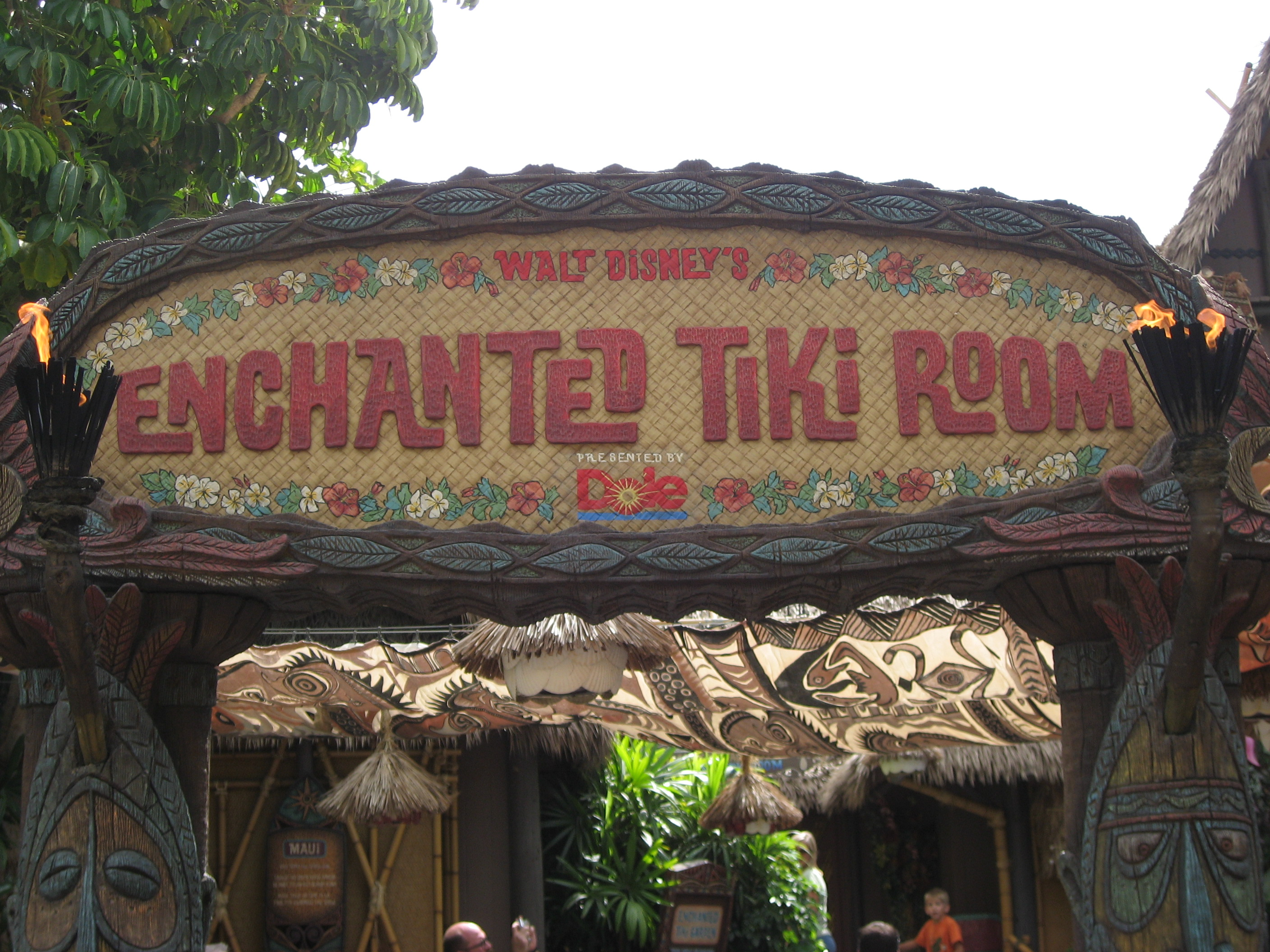 Walt Disney's Enchanted Tiki Room sign at Disneyland.